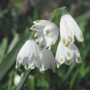 Leucojum vernum Image taken by me, released under GFDL Pollinator 05:30, 19 Feb 2004 (UTC)